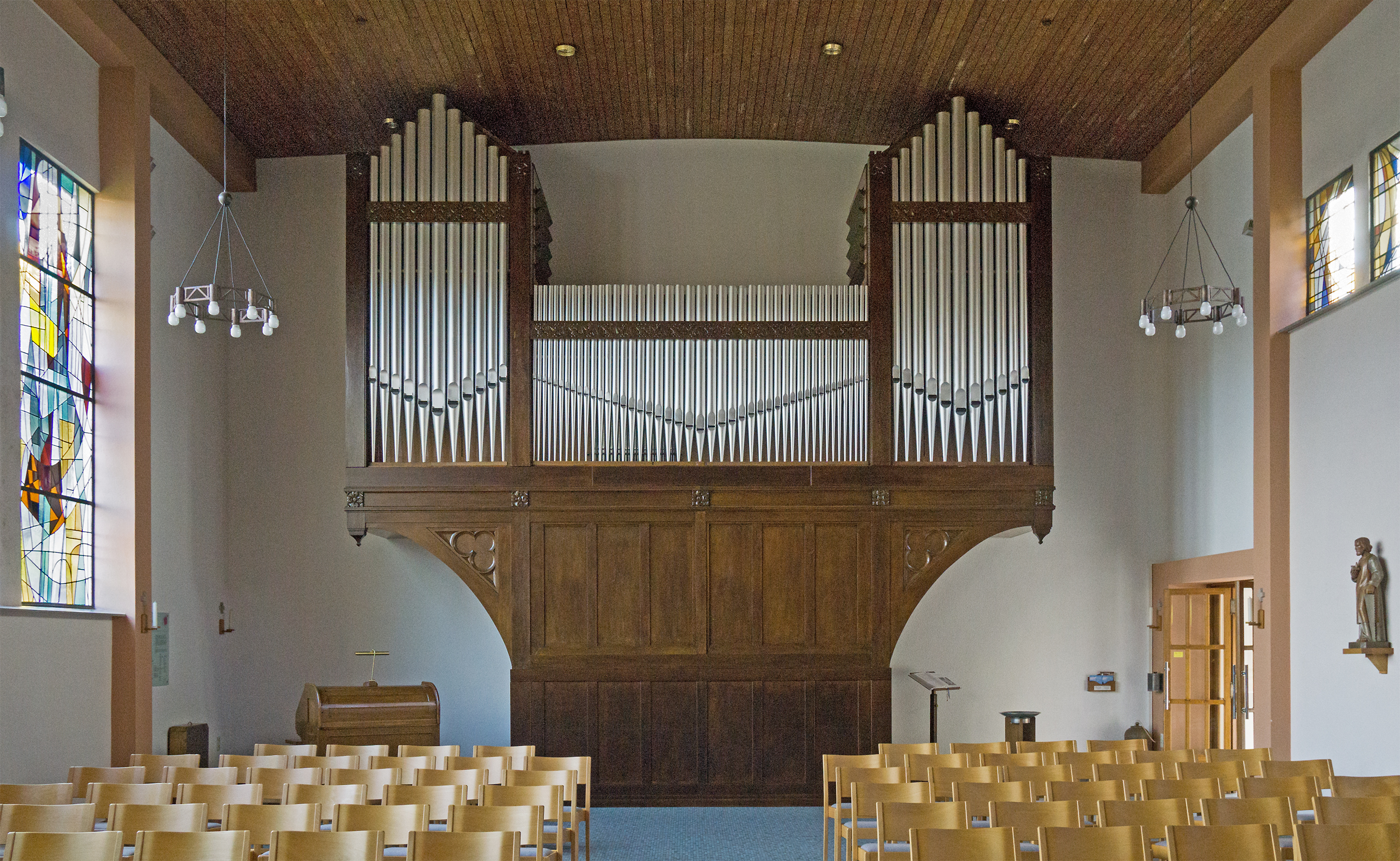 Stahlhuth organ in the church of Wilwerwiltz